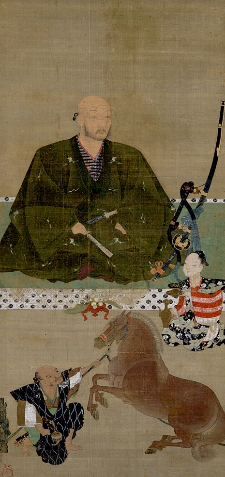 Portrait of Nawa Nagatoshi (presumed), Azuchi-Momoyama period (16th century)